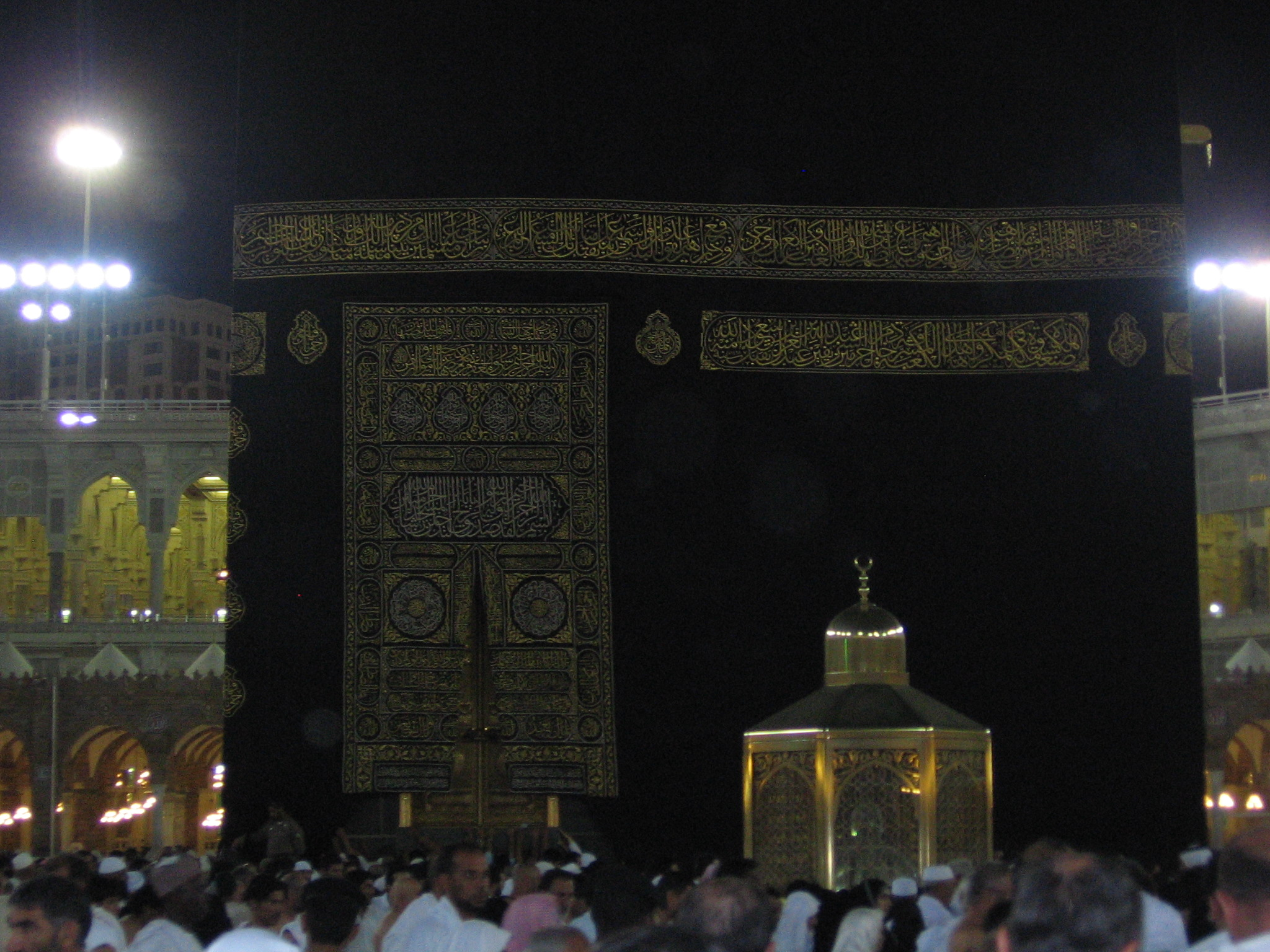 Masjid al-Haram in mecca Saudi Arabia